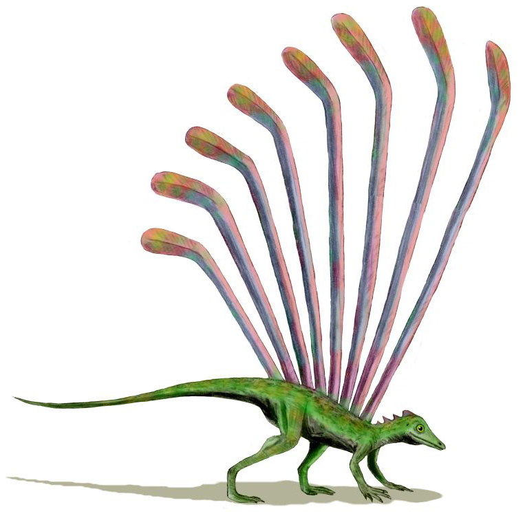 Longisquama insignis, a reptile from the Early Triassic of Kyrgyzstan, pencil drawing